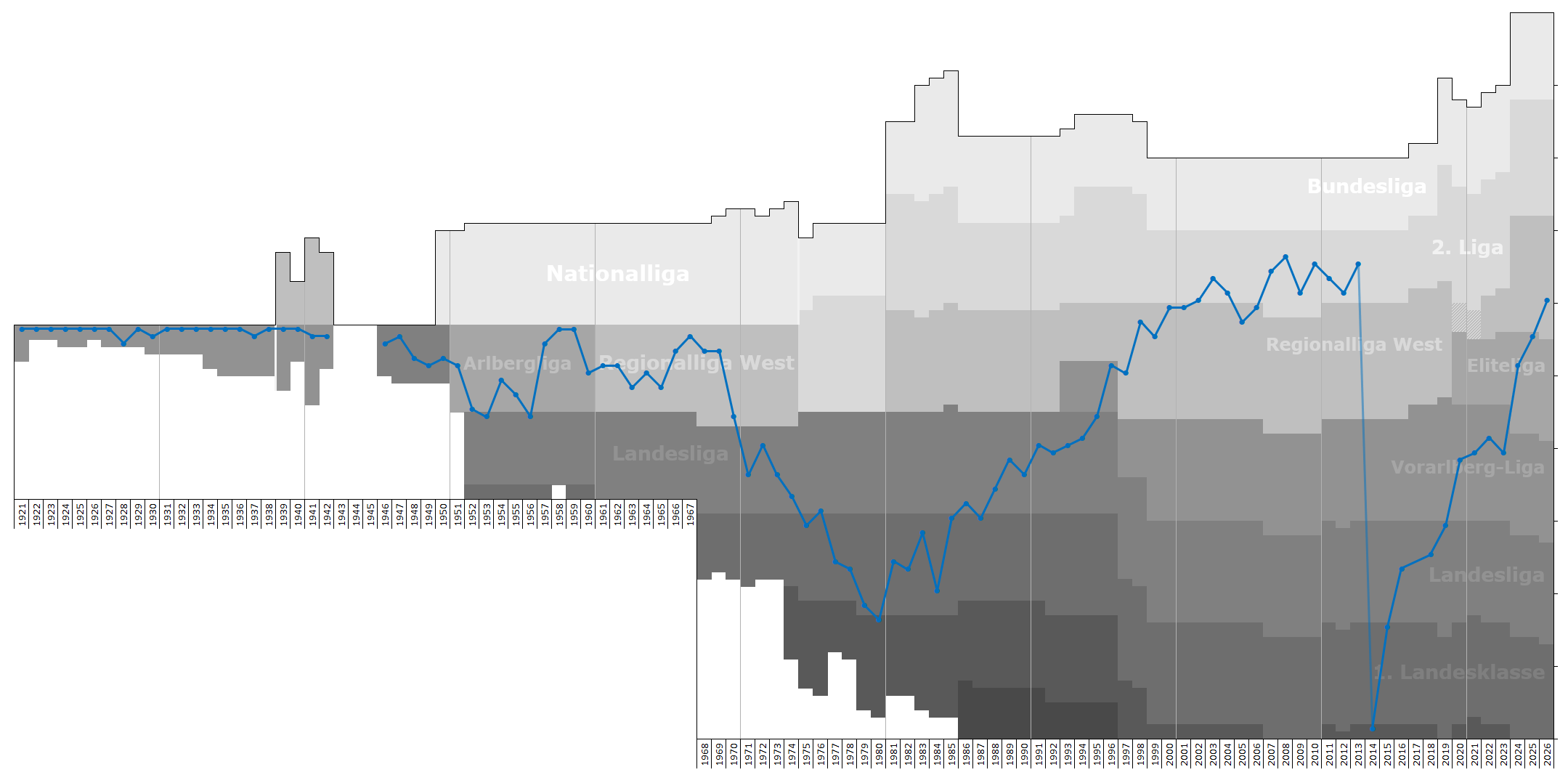 Chart of end-season table positions of FC Lustenau 07 in the Austrian football league system. Data source: RSSSF, , regiowiki.at, wikipedia